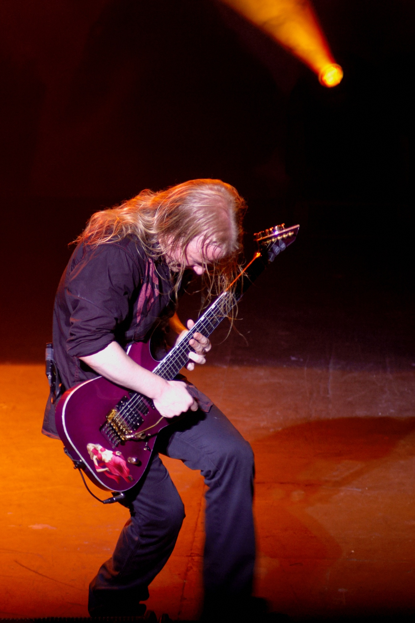 Emppu Vuorinen, Nightwish concert at The Palais, Melbourne.